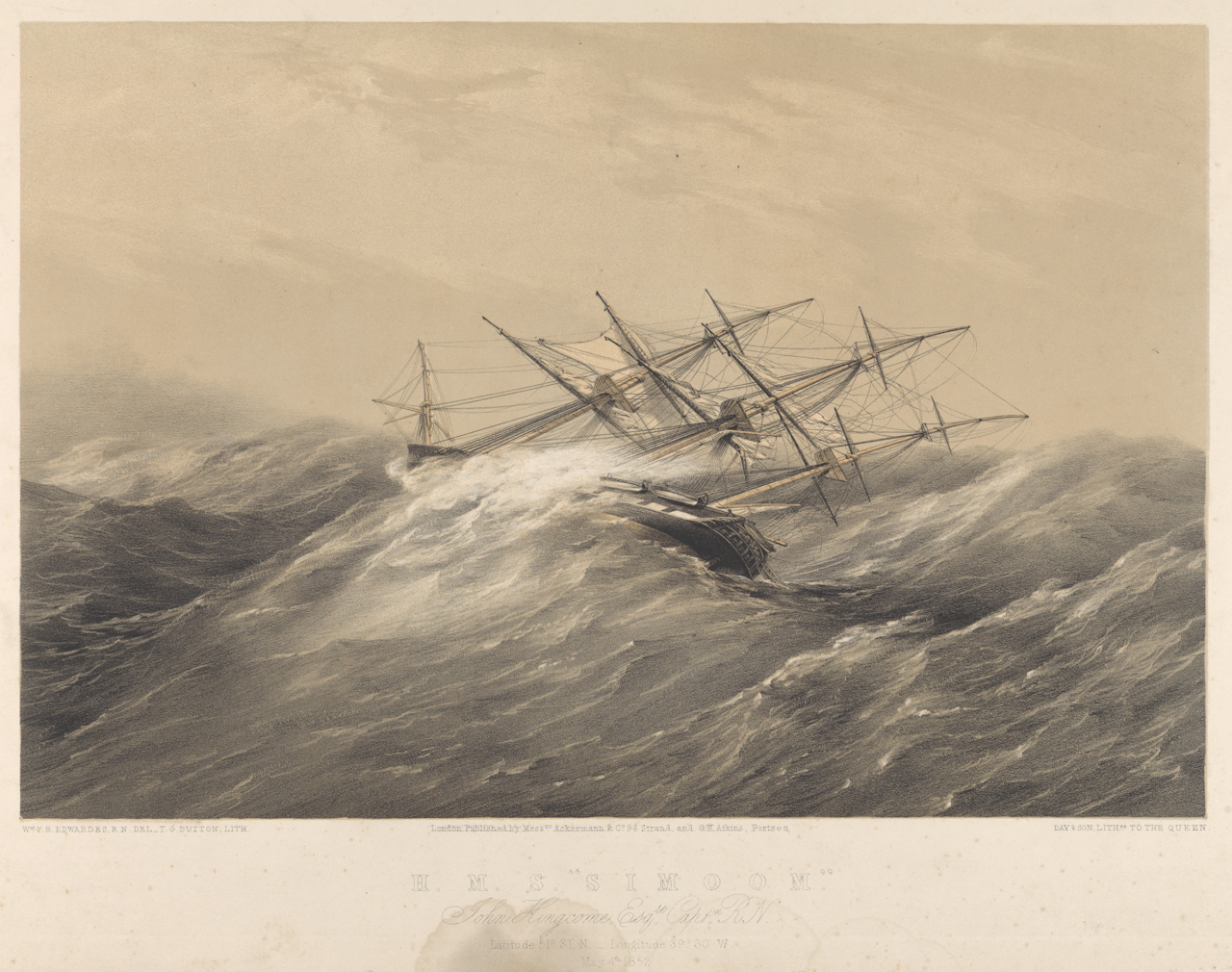 H.M.S. Simoon John Kingcome, Esqre. Captn R.N. Latitude 51o 31'N - Longitude 39o 30W May 4th 1852 Print H.M.S. Simoon John Kingcome, Esqre. Captn R.N. Latitude 51o 31'N - Longitude 39o 30W May 4th 1852